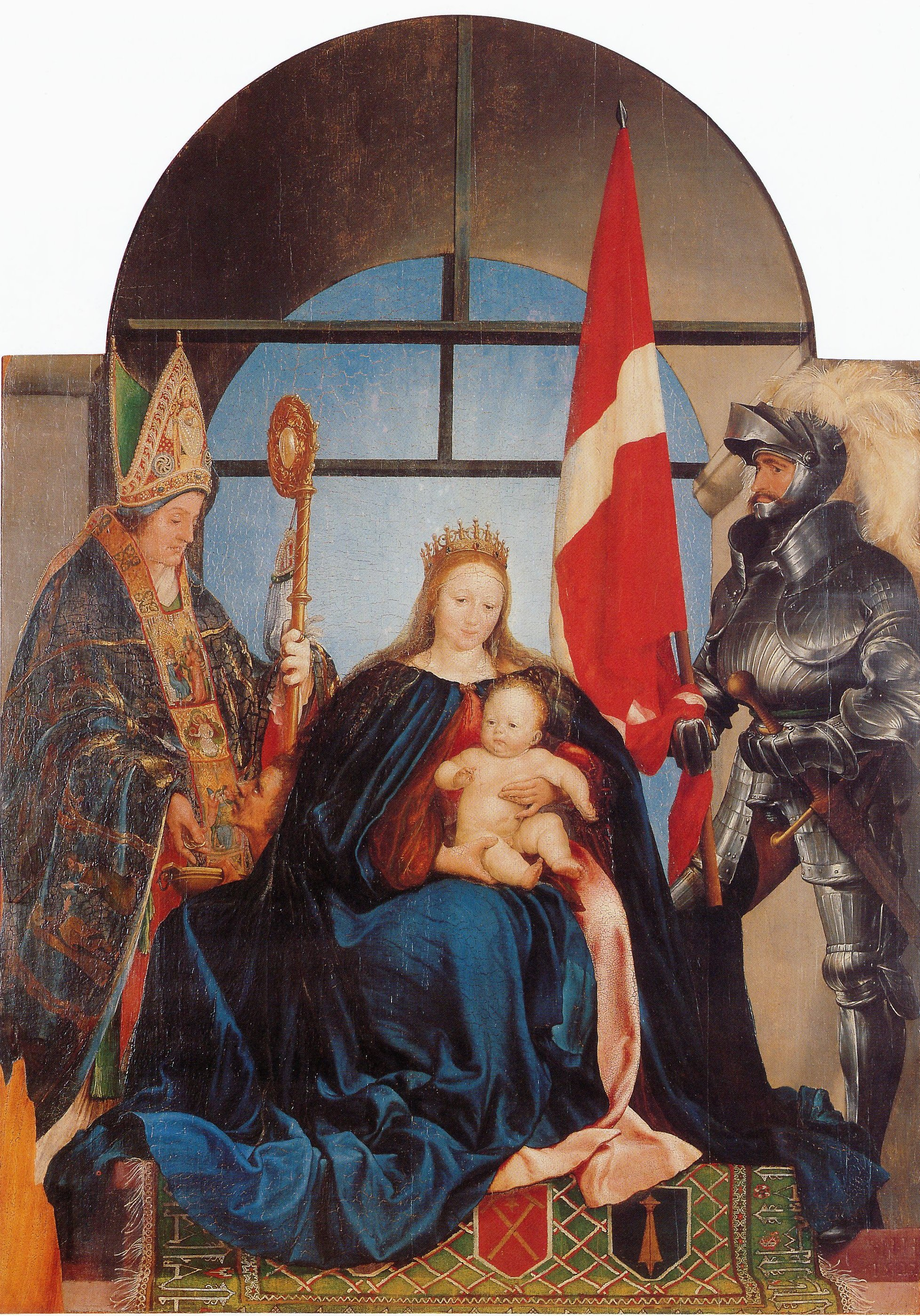 The Solothurn Madonna. Limewood, 140.5 × 102 cm, Kunstmuseum, Solothurn. The Solothurn Madonna was Holbein's first attempt at an ambitious Madonna. It was commissioned by Basel's town secretary, Johannes Gerster, and his wife Frau Barbara Guldinknopf. The piece takes the form of a sacra conversatione, a depiction of a group of saints around the Virgin Mary. The purpose of the work was probably that of an epitaph in the northern tradition, a devotional piece in memory of the family. According to art historians Oskar Bätschmann and Pascal Griener, the bishop on the left giving arms to a beggar is St Martin, and the knight on the right is one of the saints martyred for their faith in the Theban legion. He may be St Ursus, a saint connected with the church of St Martin in Basel, which had received some bones, supposed to be of St Ursus, unearthed at Solothurn in 1473. Art historian John Rowlands speculated that the bishop might be St Nicholas, who is depicted on his mitre, and the knight perhaps St George. By the 17th century, the painting was lost, but it was rediscovered in 1864 in a tiny chapel at Grenchen, near Solothurn, in a parlous condition and riddled with woodworm. It was repainted unsatisfactorily by the restorer and faker Andreas Eigner, somewhat in the style of the Nazarene movement. The restoration of 1971 returned it to a version as close to the original as possible given the irreparable damage. (References: Bätschmann & Pascal Griener, pp. 98–100; John Rowlands, Holbein: The Paintings of Hans Holbein the Younger, Boston: David R. Godine, 1985, ISBN 0879235780, p. 127; Pascal Griener, "Alfred Woltmann and the Holbein Dispute, 1863–71", in Mark Roskill & John Oliver Hand (eds), Hans Holbein: Paintings, Prints, and Reception, Washington: National Gallery of Art, 2001, ISBN 0300090447, pp. 215–17.)